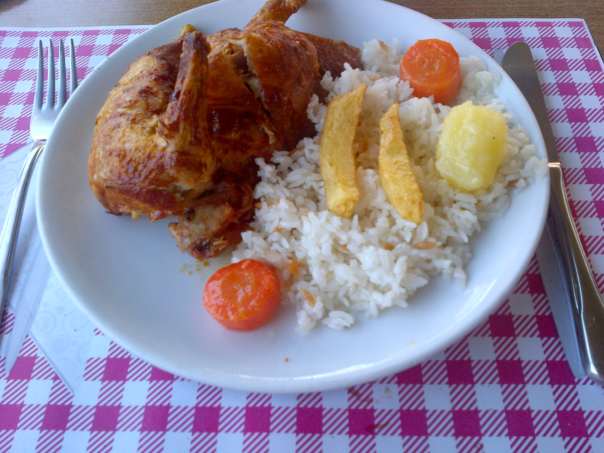 Roasted chicken with "pilav" (Turkish pilaf) and a couple of fries, a couple of boiled carrot pieces and a piece of potato, also boiled. When you eat at market restaurants or "esnaf lokantası" in Turkey, you may ask your dish to your own taste, as in this case.